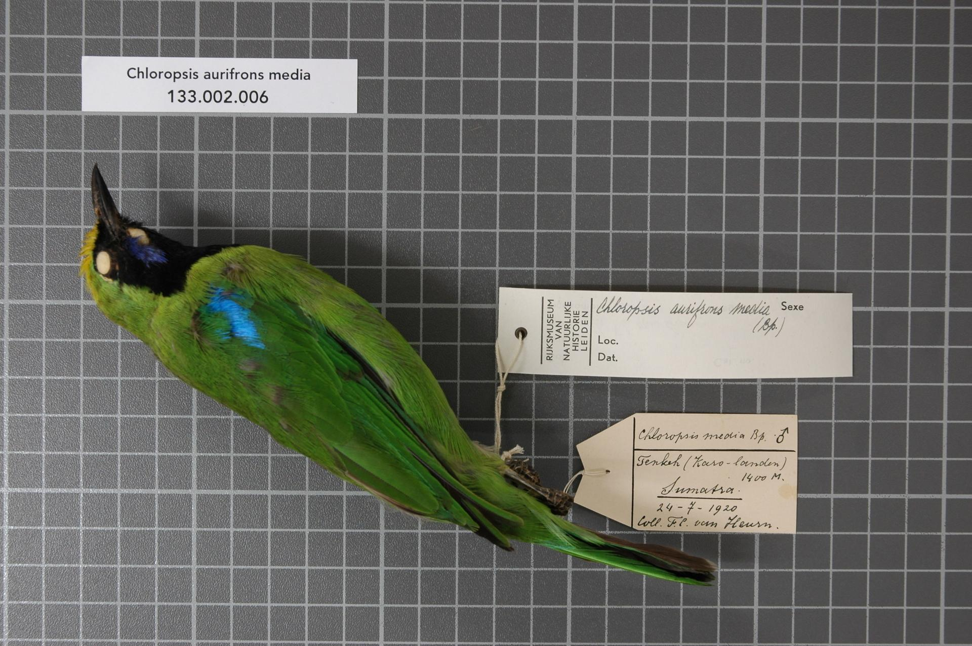 Chloropsis aurifrons media (Bonaparte, 1850)